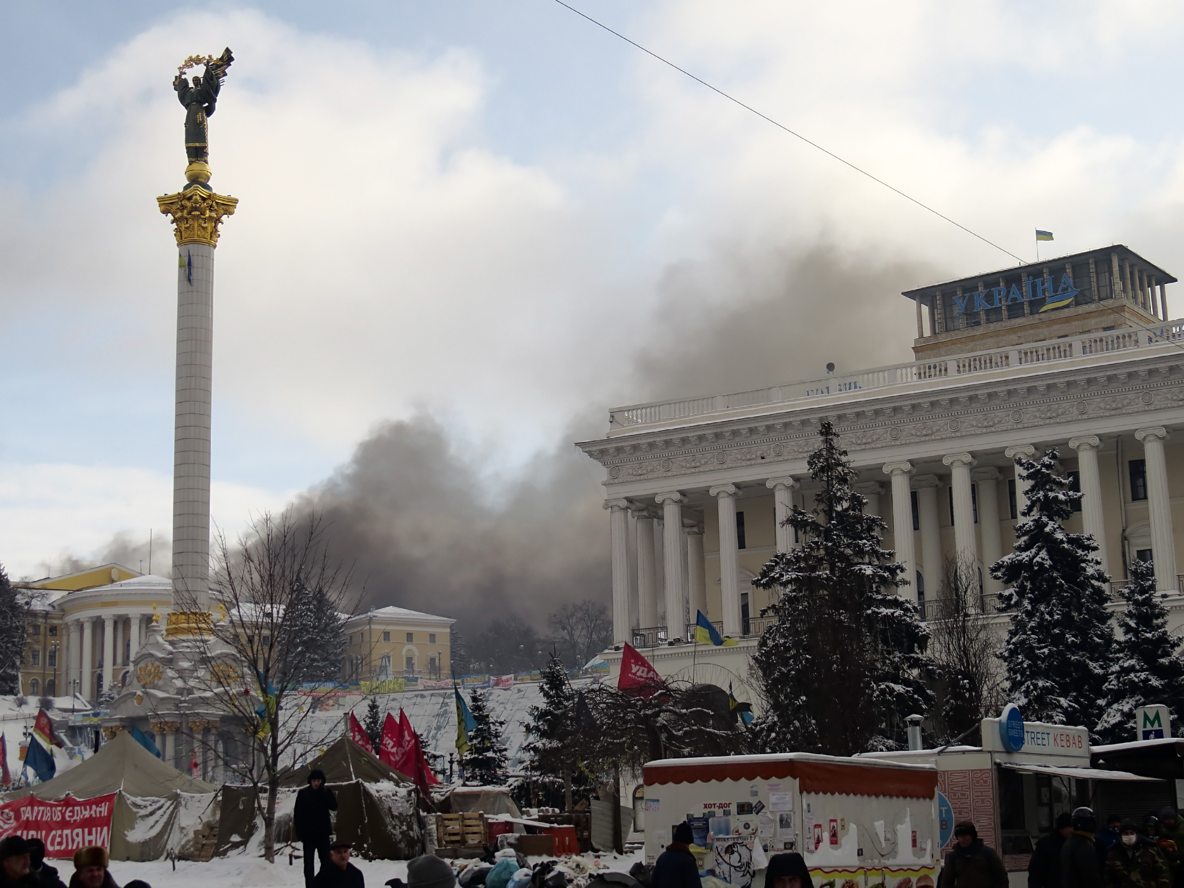 Euromaidan in Kiev. Maidan of Independence and smoke from Hrushevsky street